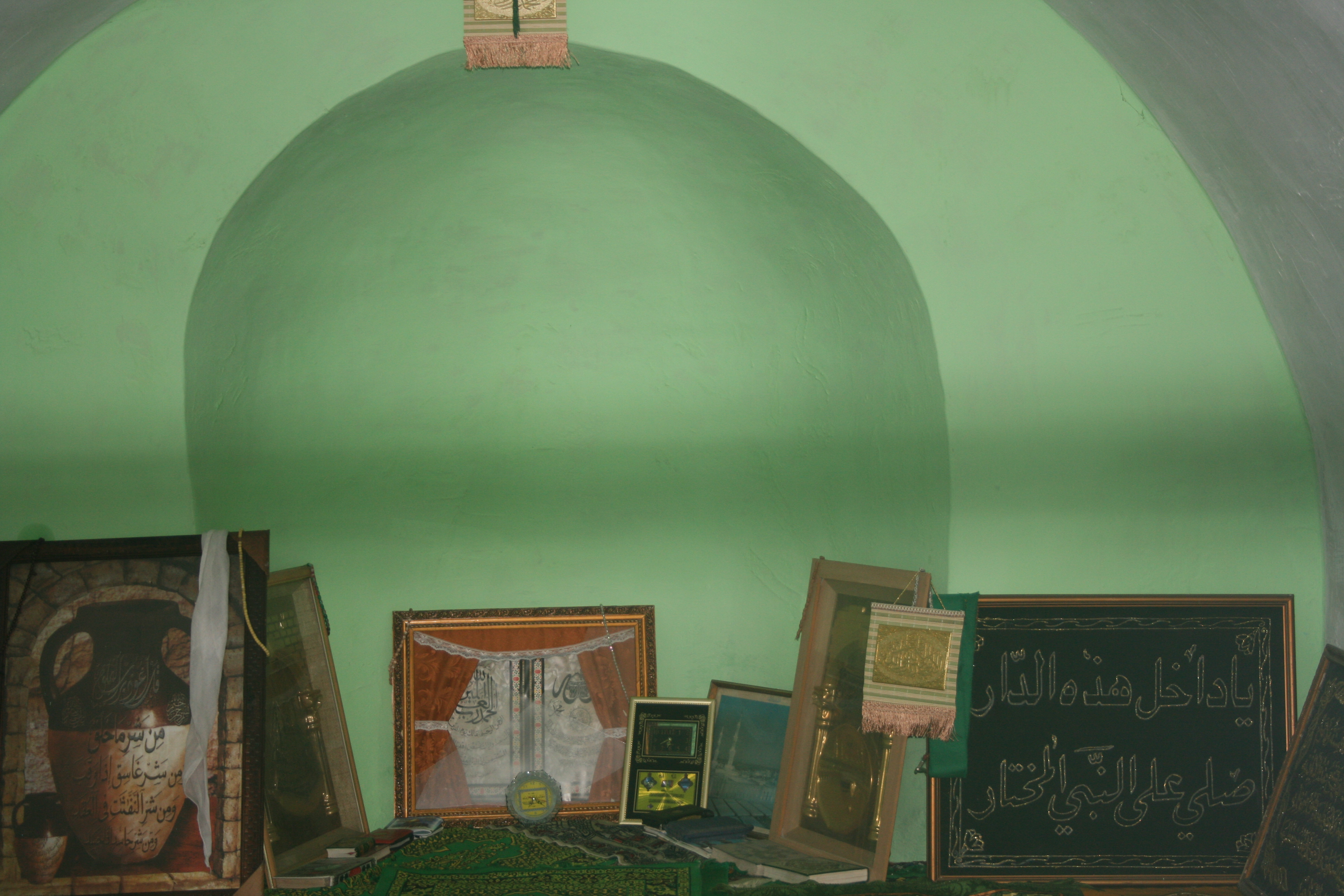 Part of the interior of the Nabi Hushan shrine in the cemetery of the destroyed Palestinian village of Hawsha. While the shrine is named for the Prophet Hushan, the chalkboard message on the right reads: "O ye inside this house [of prayer], pray to the Chosen Prophet [i.e. Muhammad]."